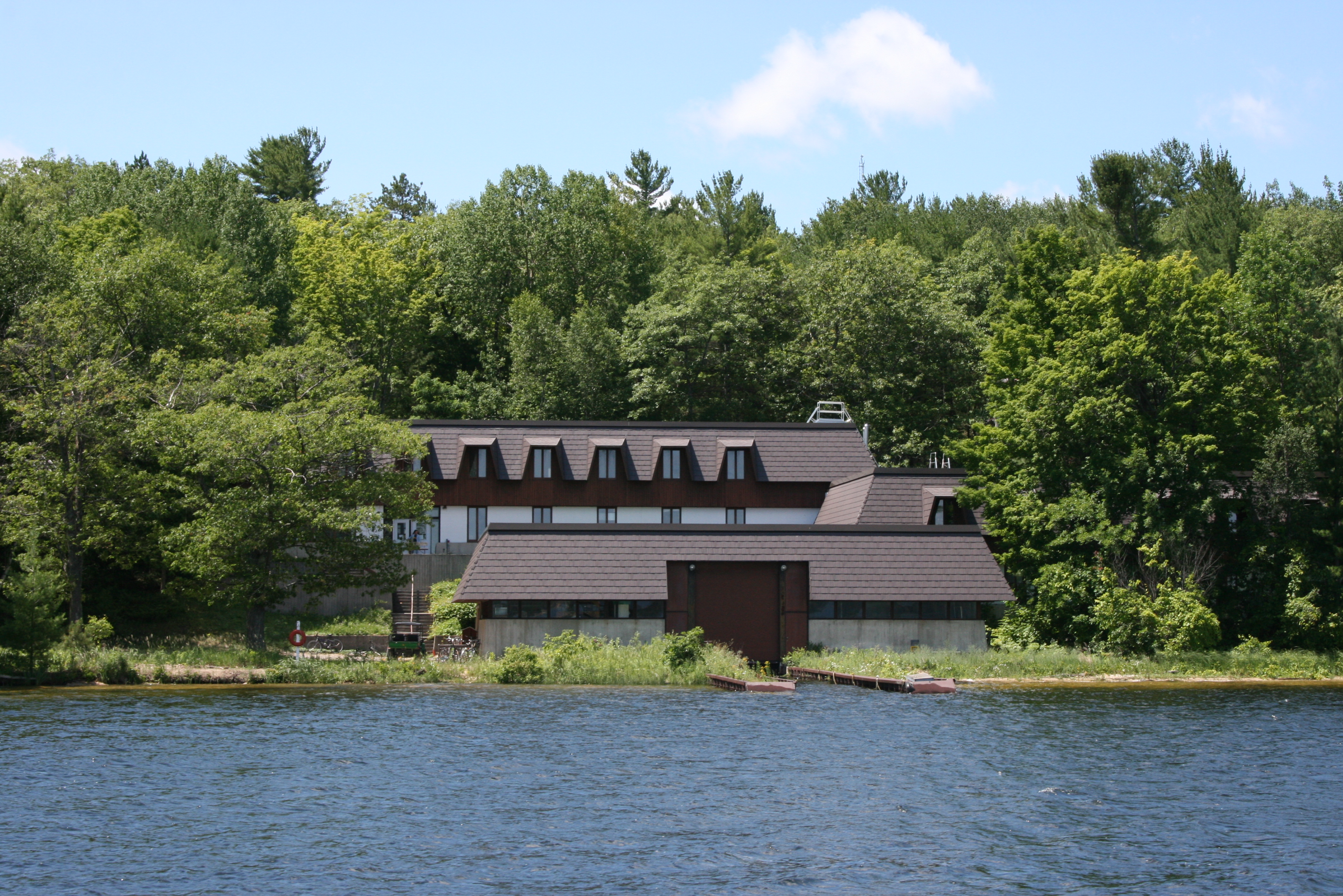 The University of Michigan Biological Station's (UMBS) Lakeside Laboratory. The boatwell occupies the foreground while classrooms, lab space and offices occupy the rest of the building. Lakeside Laboratory was constructed in 1964 using funds provided by the National Science Foundation.